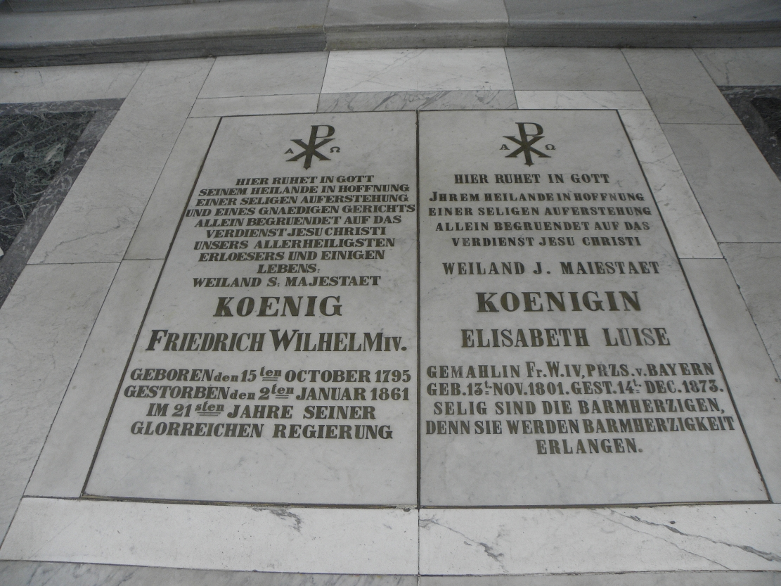 Potsdam